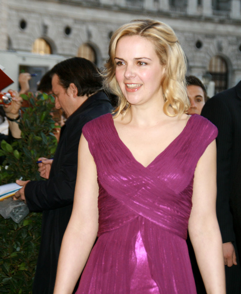 Denise Zich at the Romy TV awards (Hofburg Imperial Palace in Vienna)